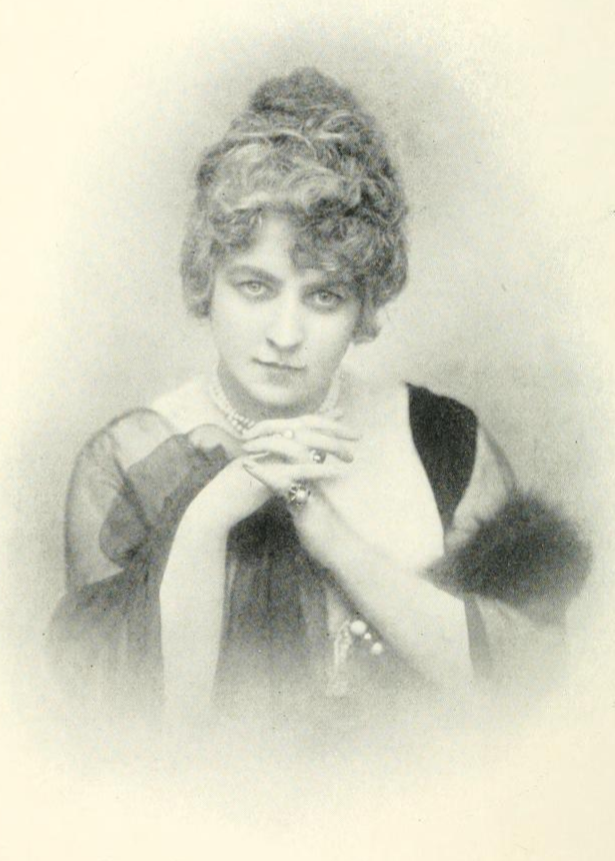 portrait of Madame Jeanne Paquin